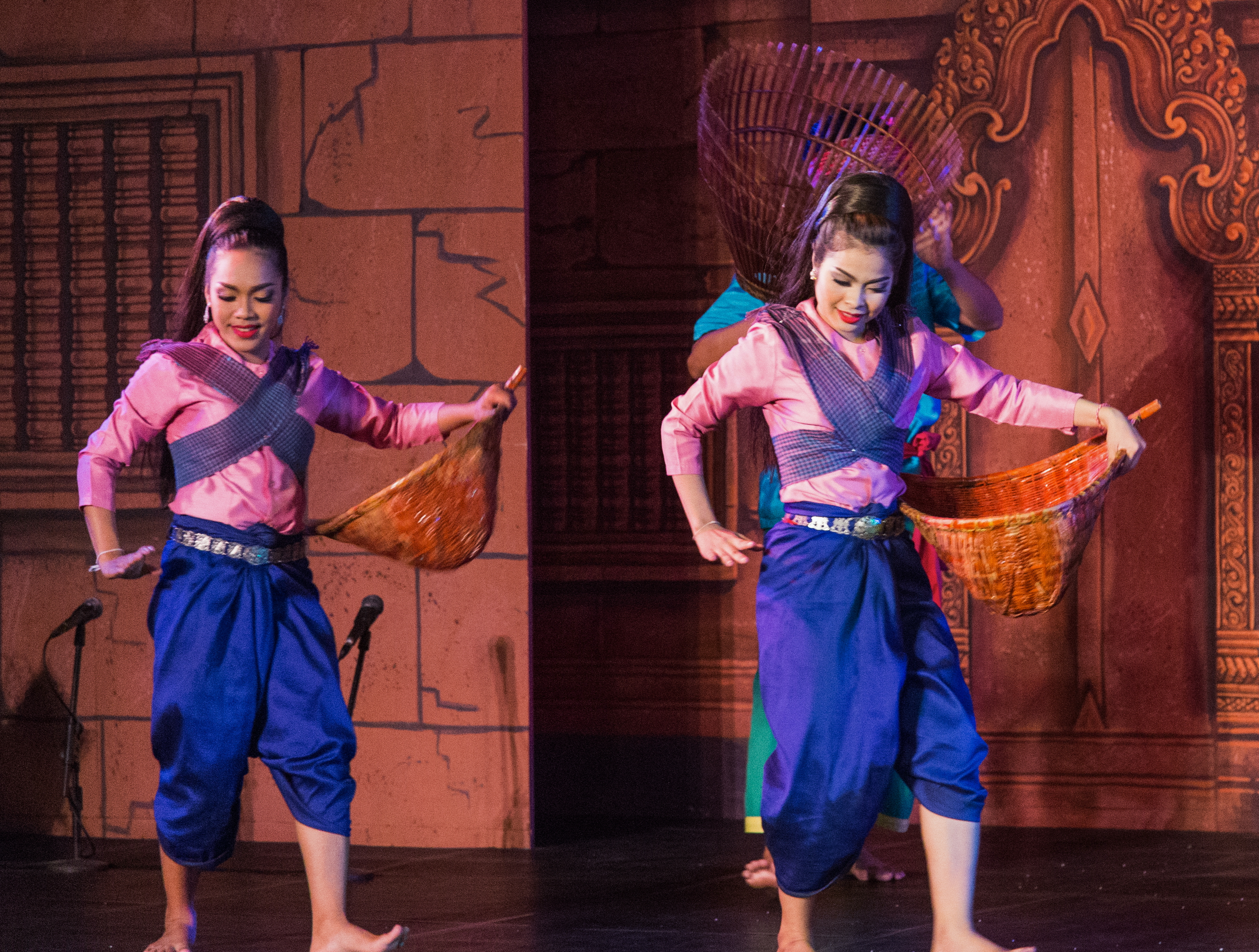 Traditional Cambodian Dance Show - Nesat (fishing dance). Phnom Penh, Cambodia.